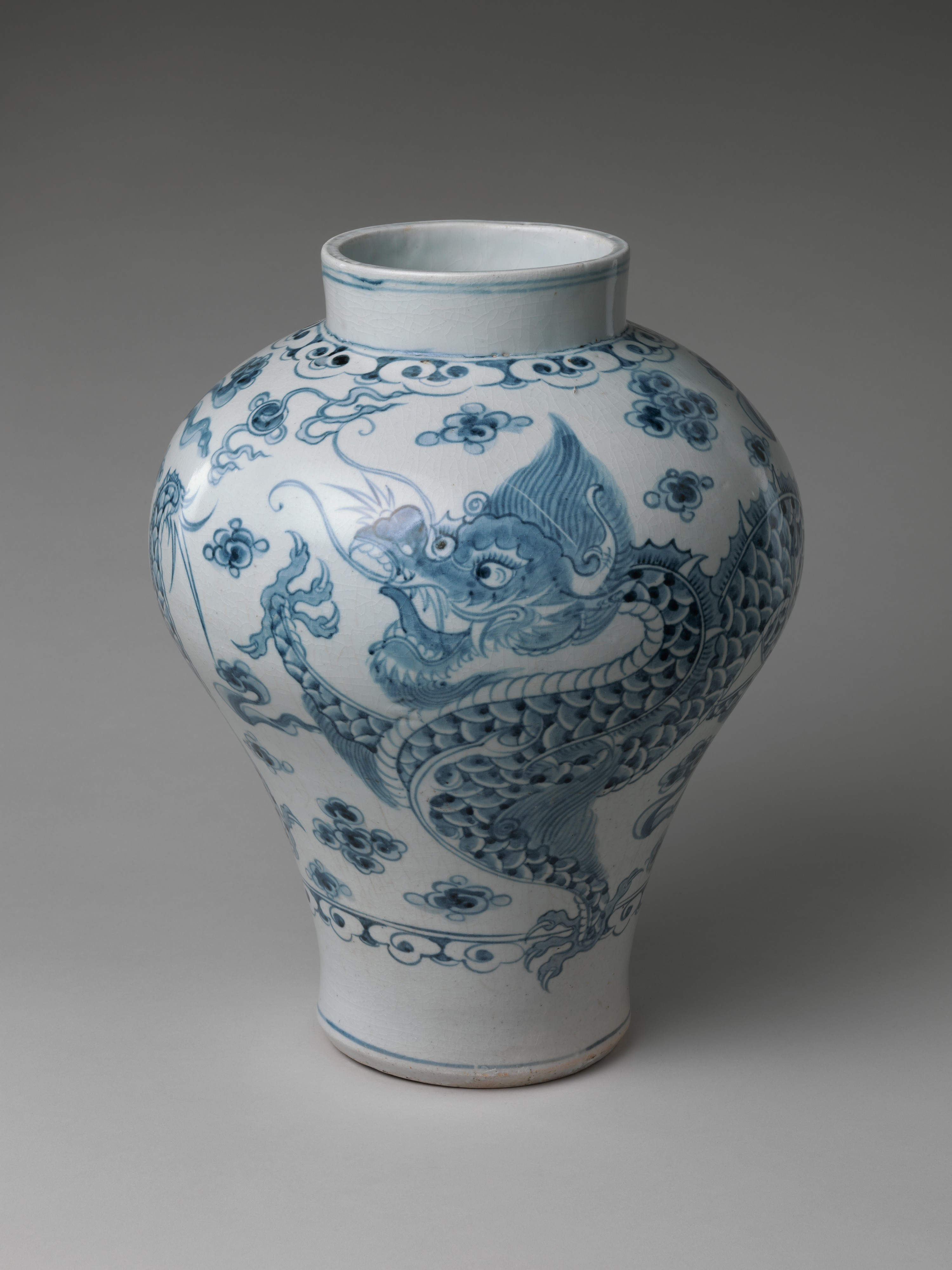 Korea; Jar; Ceramics